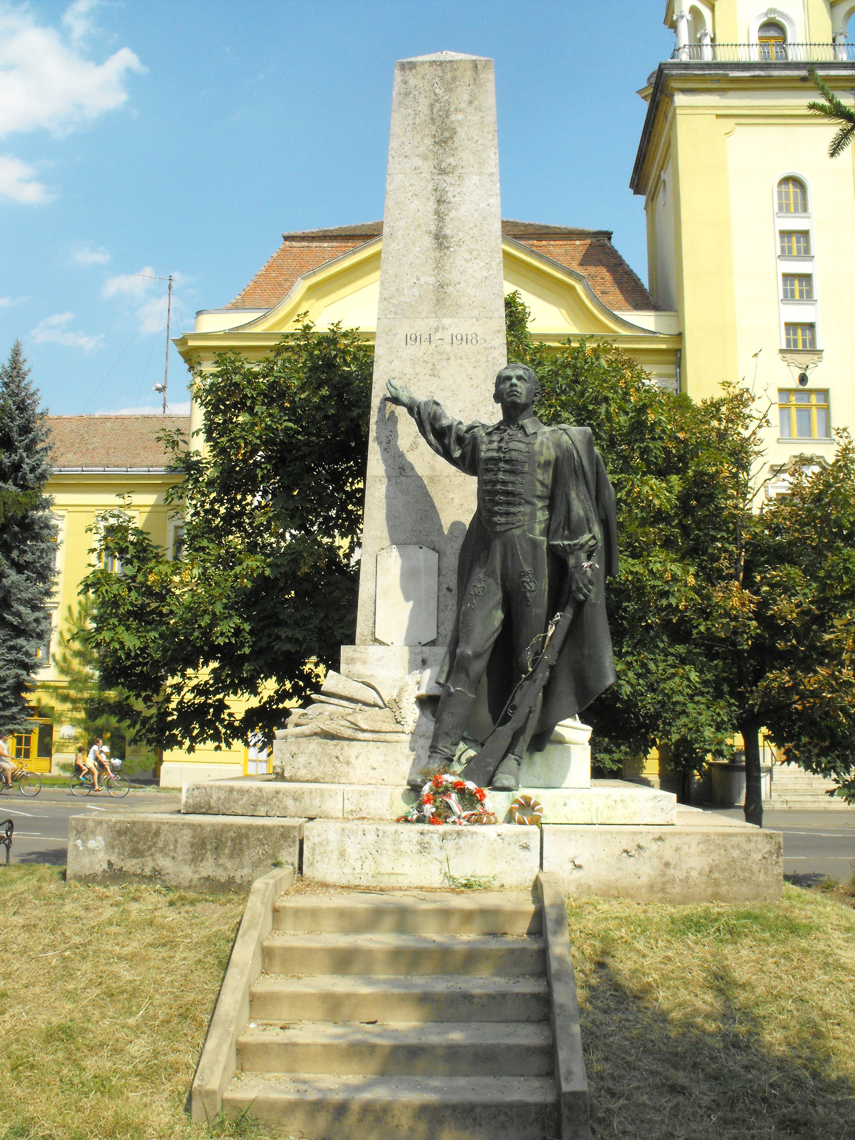 World War I memorial in the downtown of Mezőtúr, Hungary.